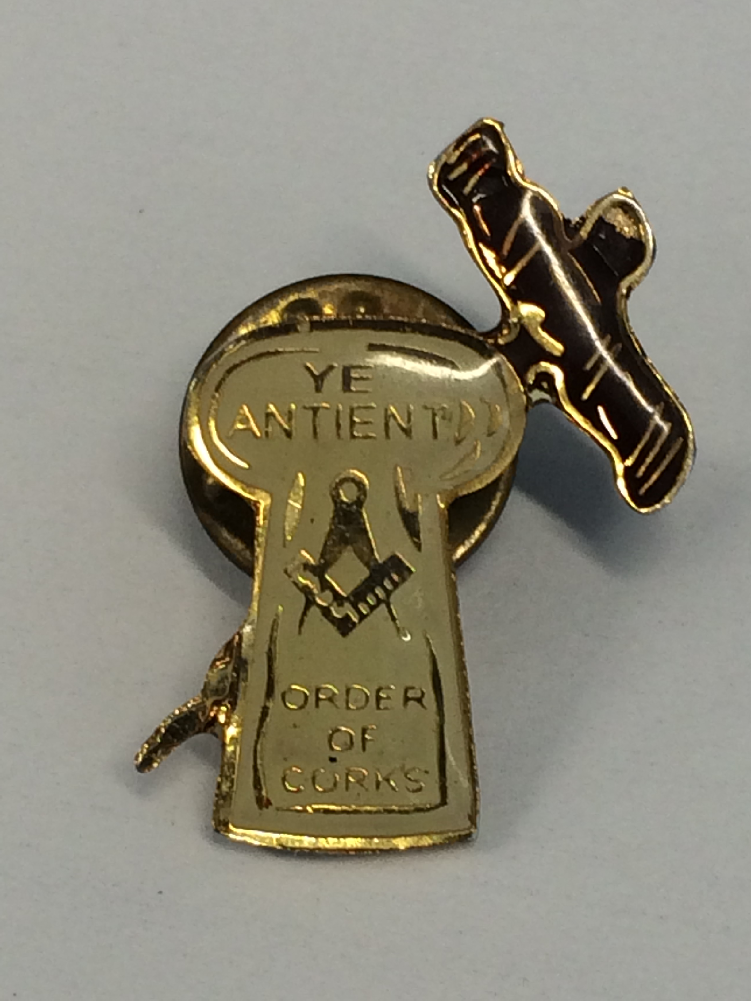 The picture is of a Cork lodge lapel pin currently being used in Australia by Endevour Cork Lodge No. 1